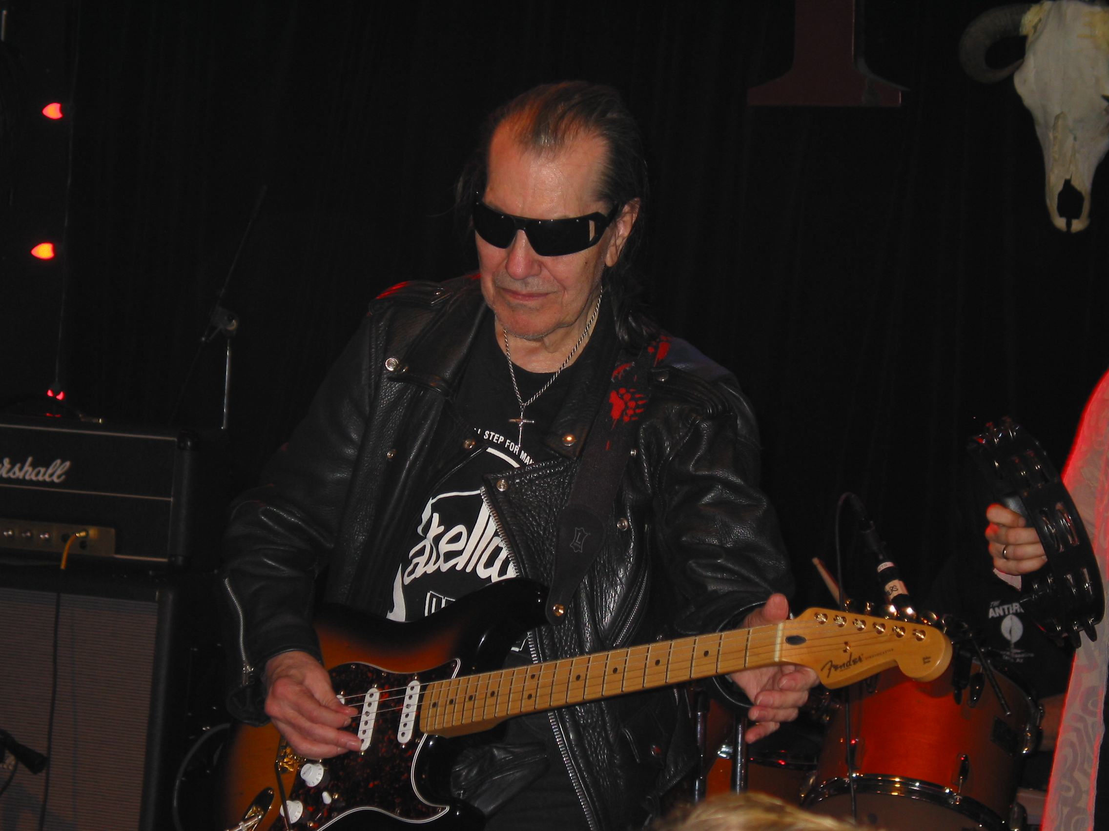 Link Wray at The Tractor Tavern, Adams, Seattle, Washington, US (July 10, 2005)